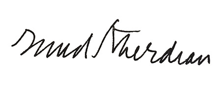 David Kherdian's Author's Signature